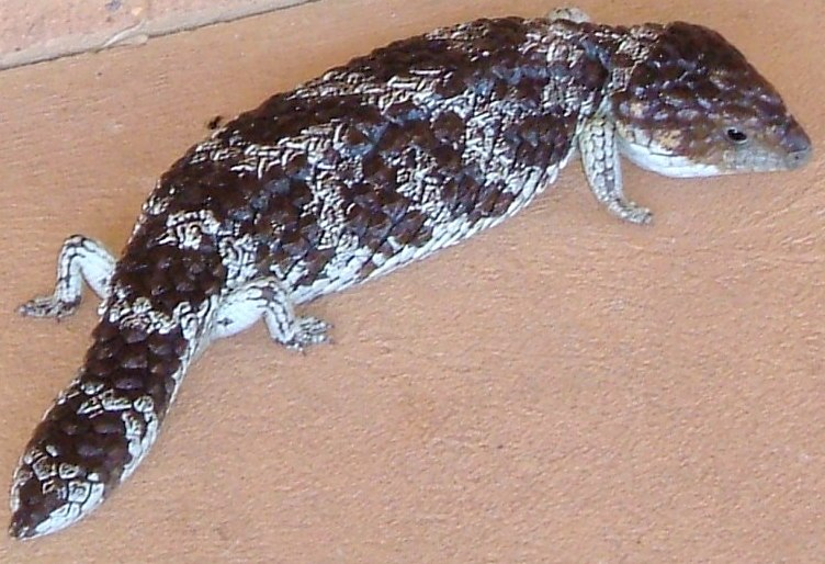 A Tiliqua rugosa (subspecies unknown) on a verandah in the Wheatbelt region of Western Australia. The common local name is "bobtail".